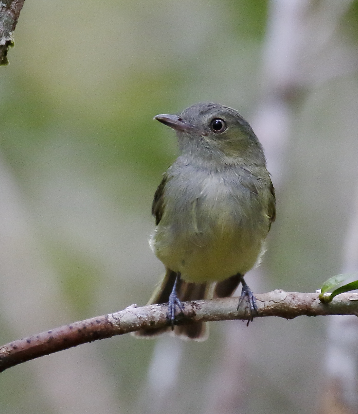 Wied's Tyrant-Manakin at Poções, Bahia, Brazil